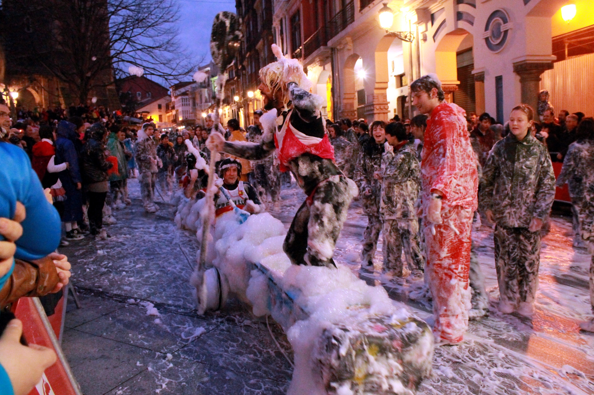 International and fluvial descent of Galiana street